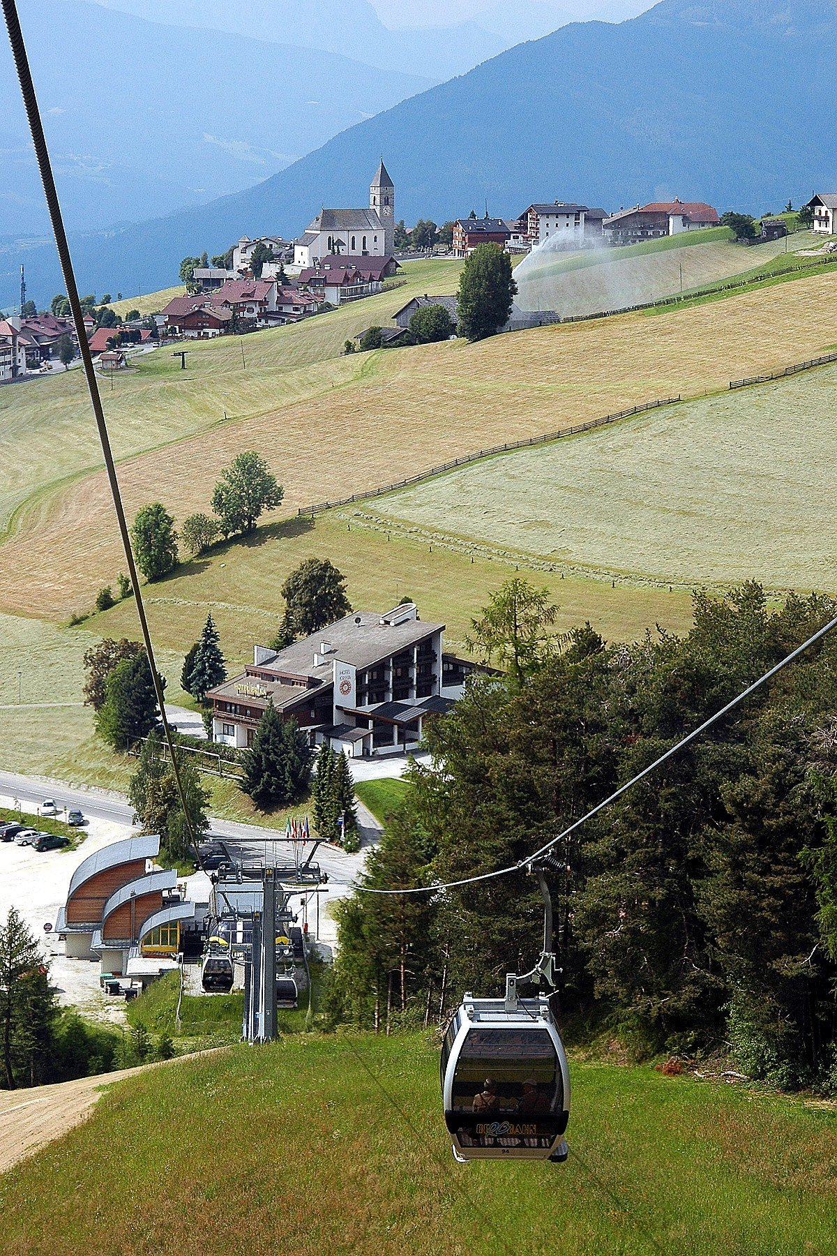 View of Meransen from cableway to Gitschberg